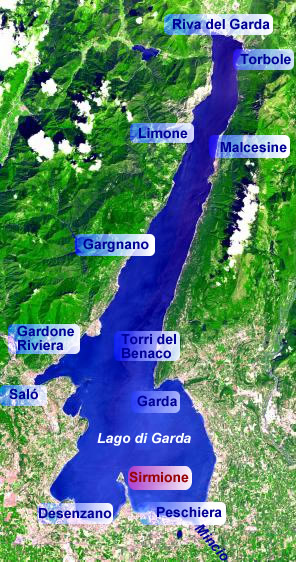 Map of Sirmione, Lake Garda, Italy Designer: Markus Bernet